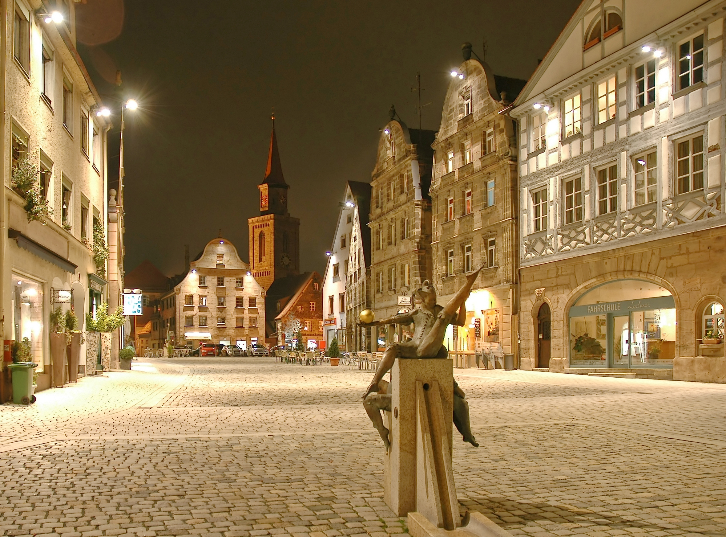 The Green Market in Fürth